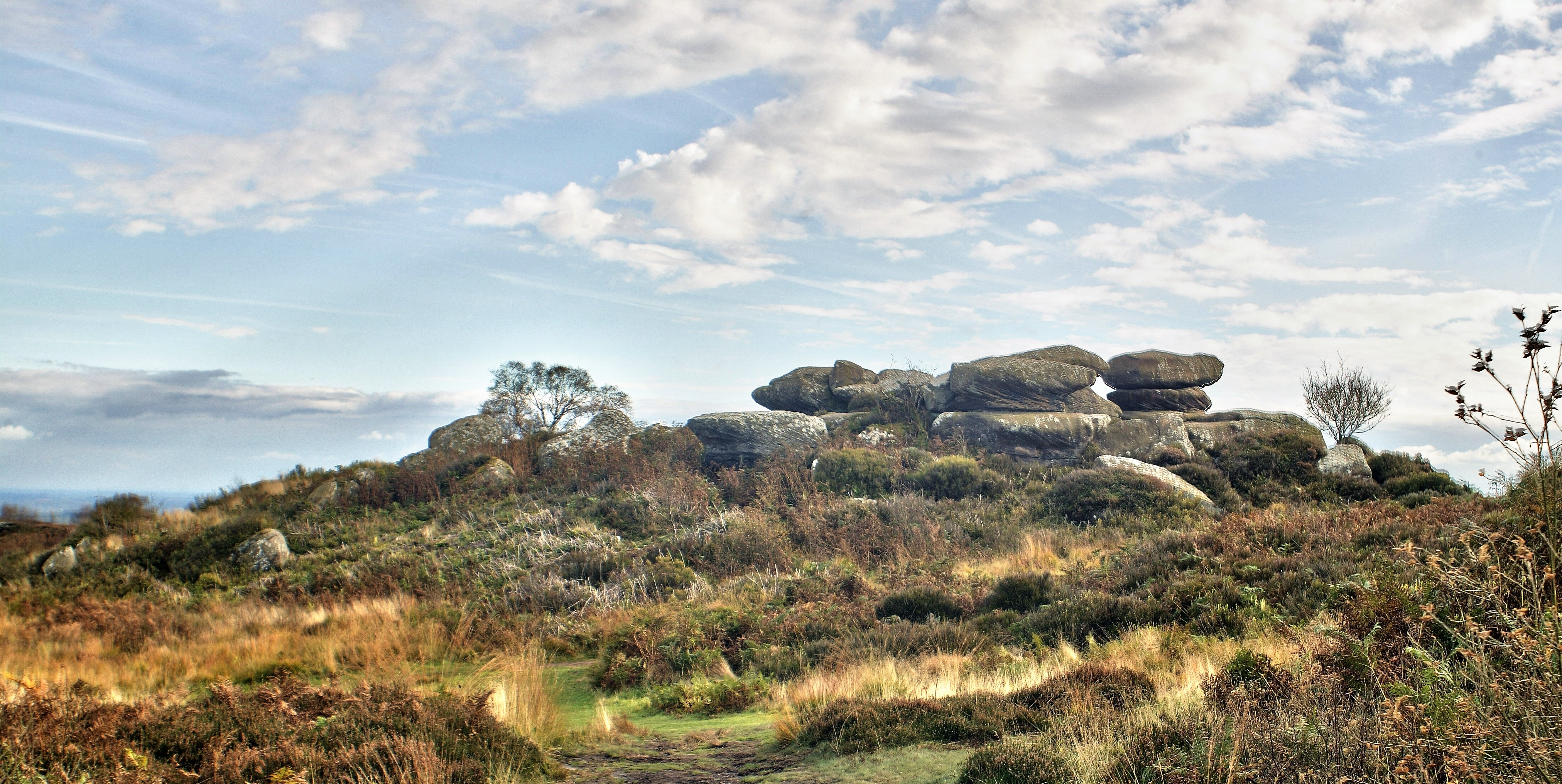 Brimham Rocks, North Yorkshire, England. This is a Site of Special Scientific Interest, designated for its geological and biological significance.